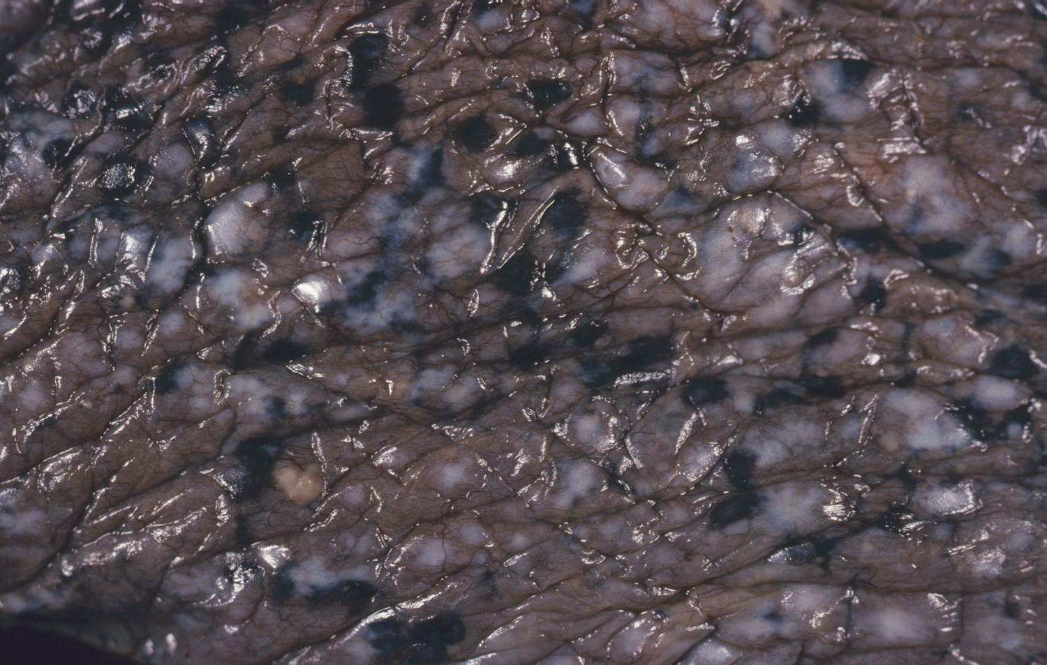 This is an example of lymphangitic carcinomatosis with metastatic tumor seen here primarily in subpleural lymphatics.